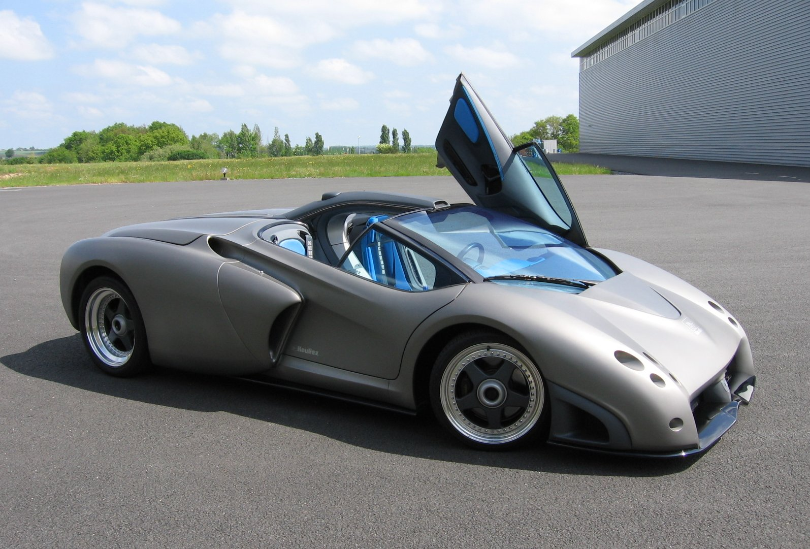 Prototype Lamborghini Pregunta